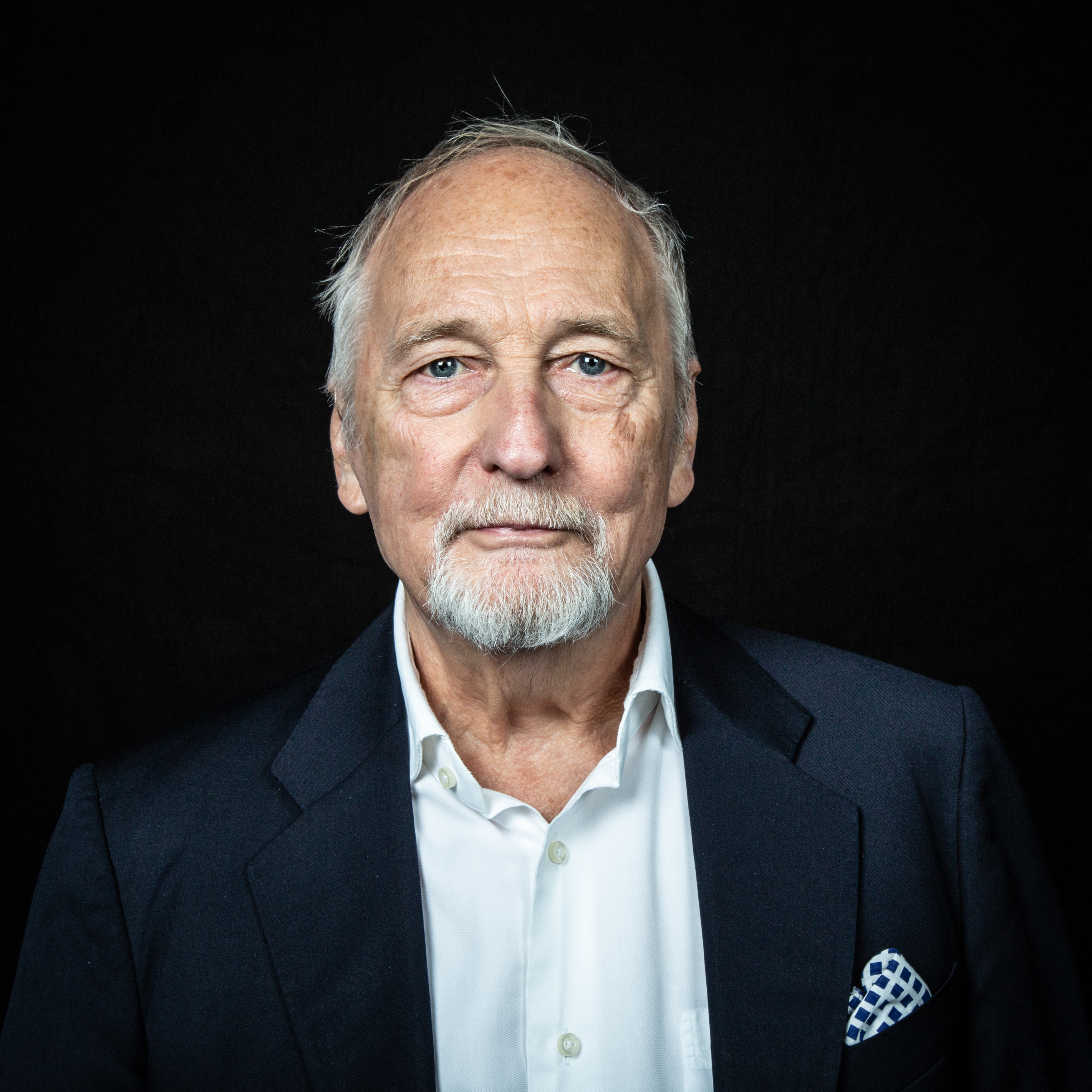 German publisher Jörg Schröder at the Frankfurt Book Fair 2018